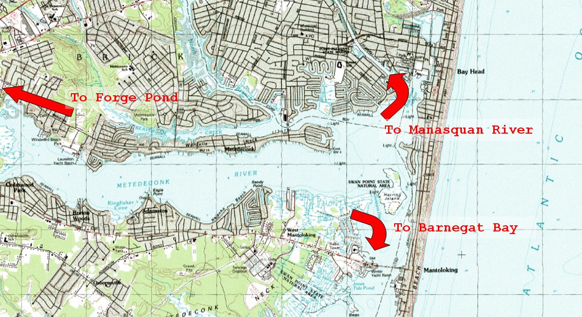 (modified PD-USGov-Interior-USGS image) Map of lower Metedeconk River. Grids are 1 km square.